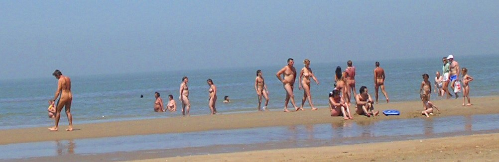 Bredene naturist beach line, excerp from orginal